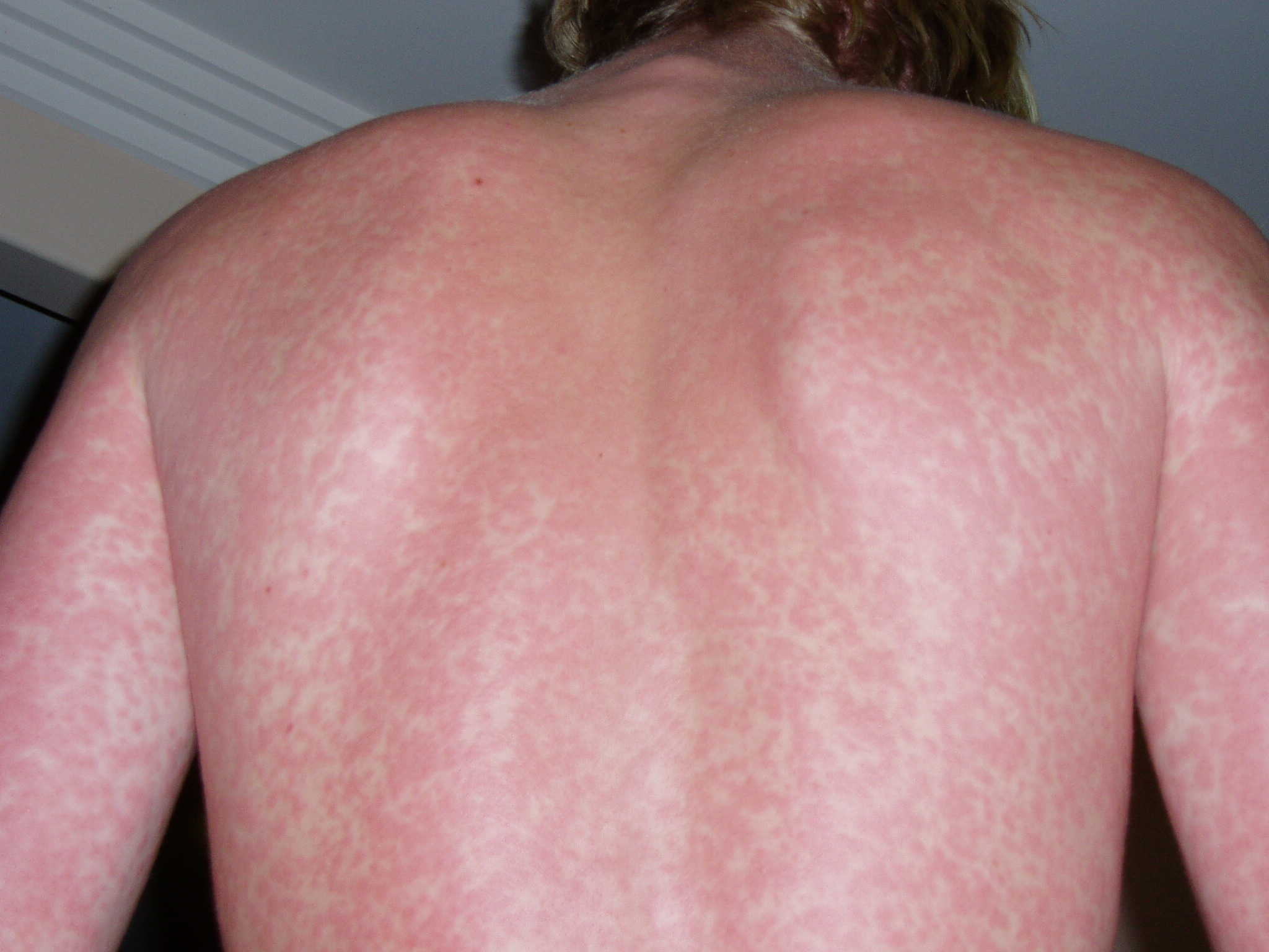 A diffuse rash on the back of a Caucasian male